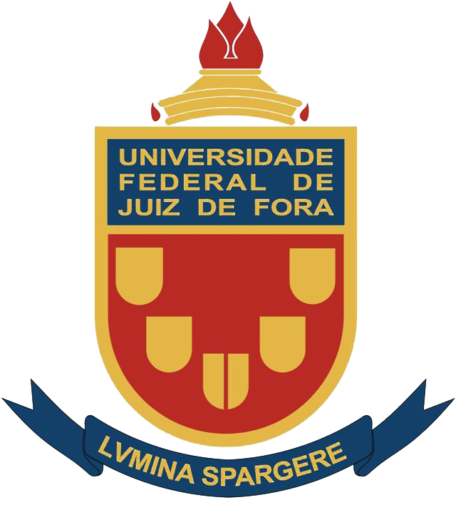 Official coat of arms of the Federal University of Juiz de Fora